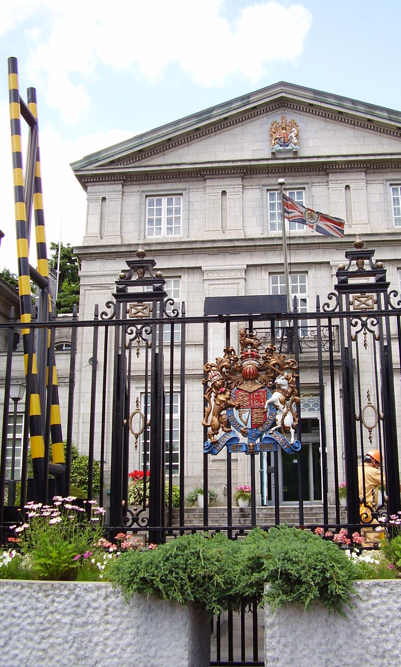 UK Embassy in Chiyoda, Tokyo, Japan